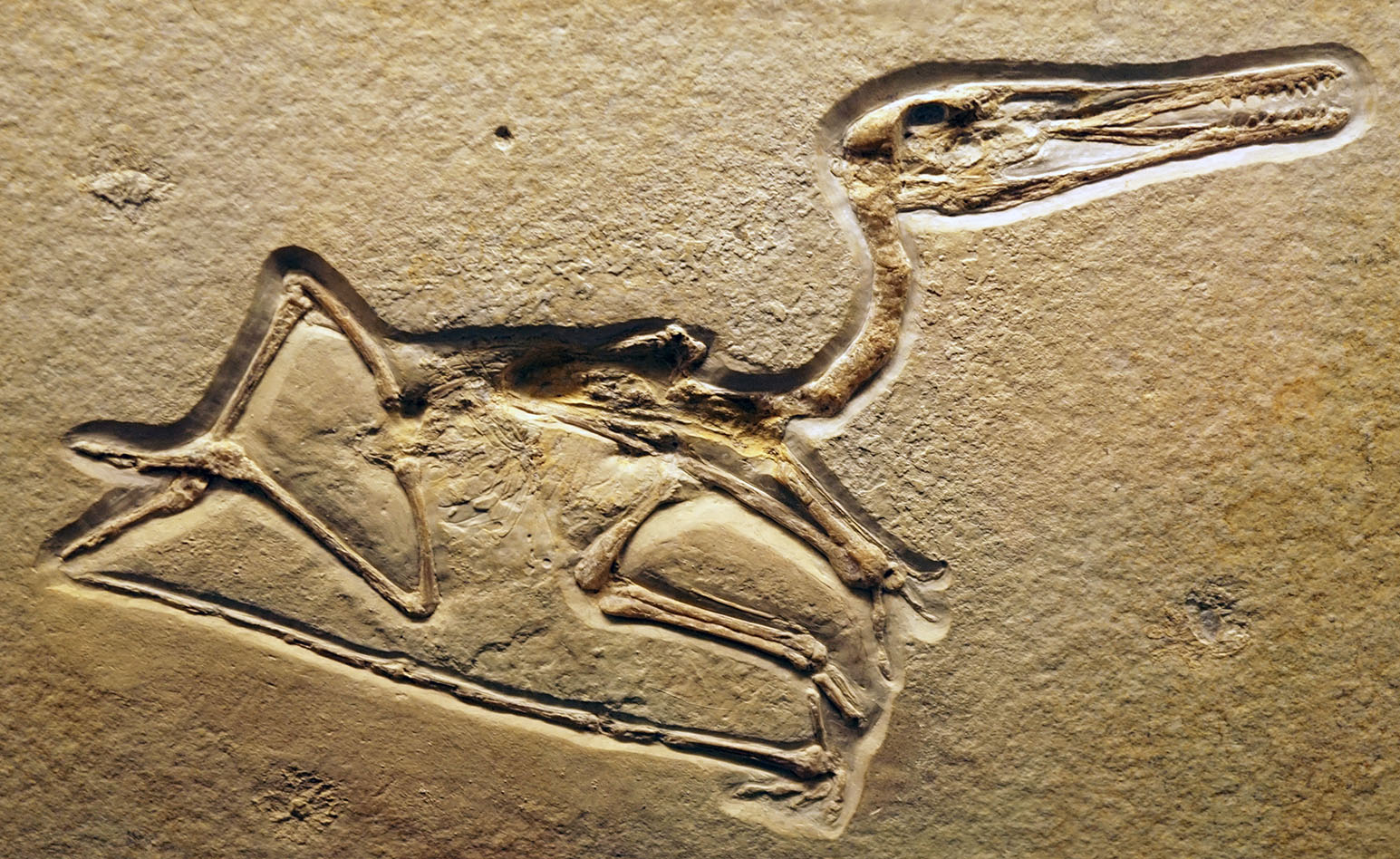 Pterodactylus kochi fossil in Augsburg Naturmuseum.This photograph was taken with a Sony ILCE-5000